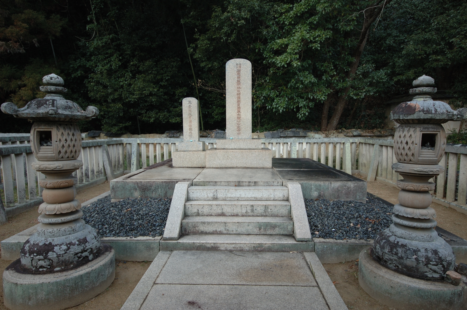 graves of the fifth Okayama feudal lord Ikeda Harumasa(right side) and his wife